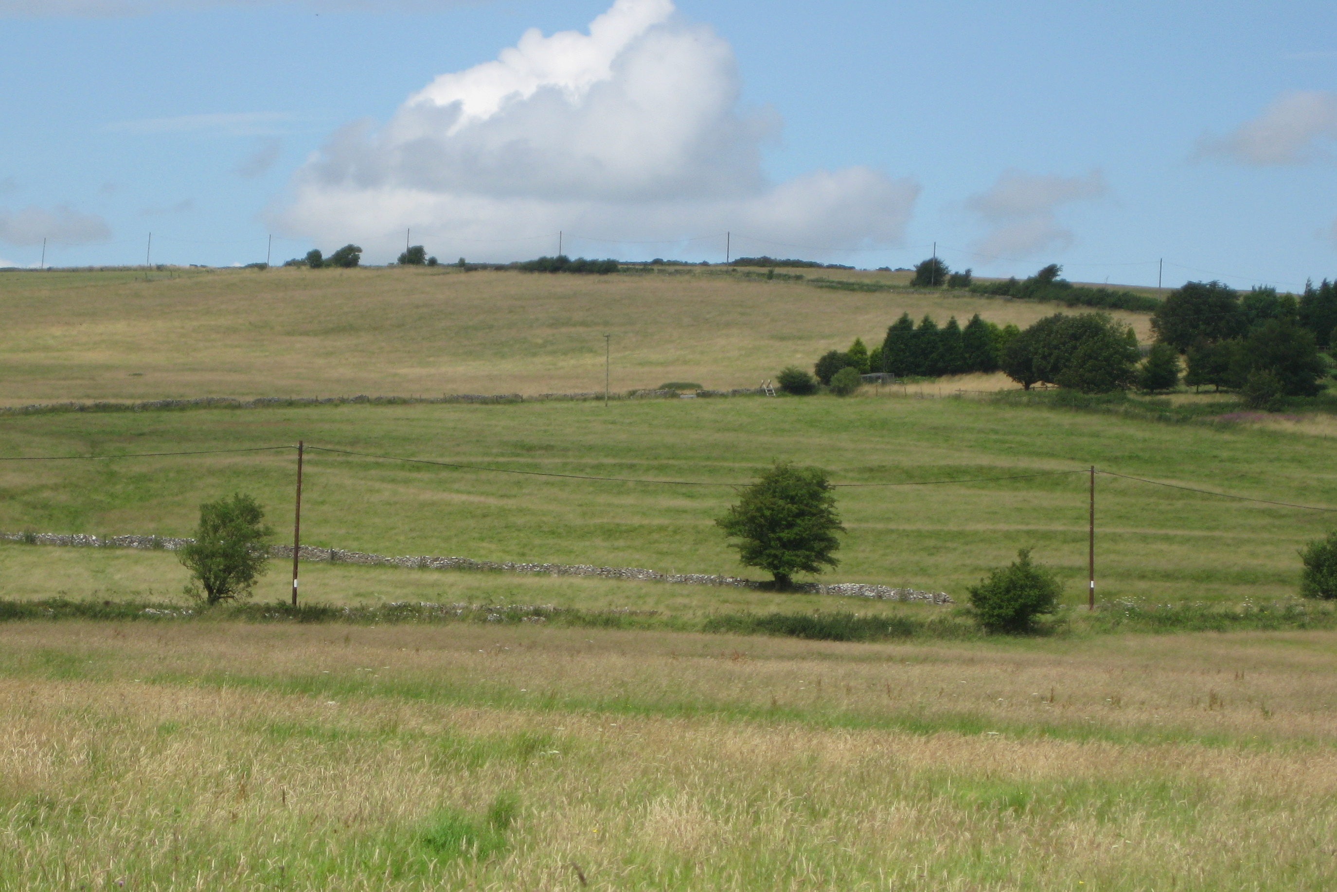 Zoomed and cropped view of the ancient closure and site of Roman town at grid reference ST501561, east of Charterhouse, Somerset, UK